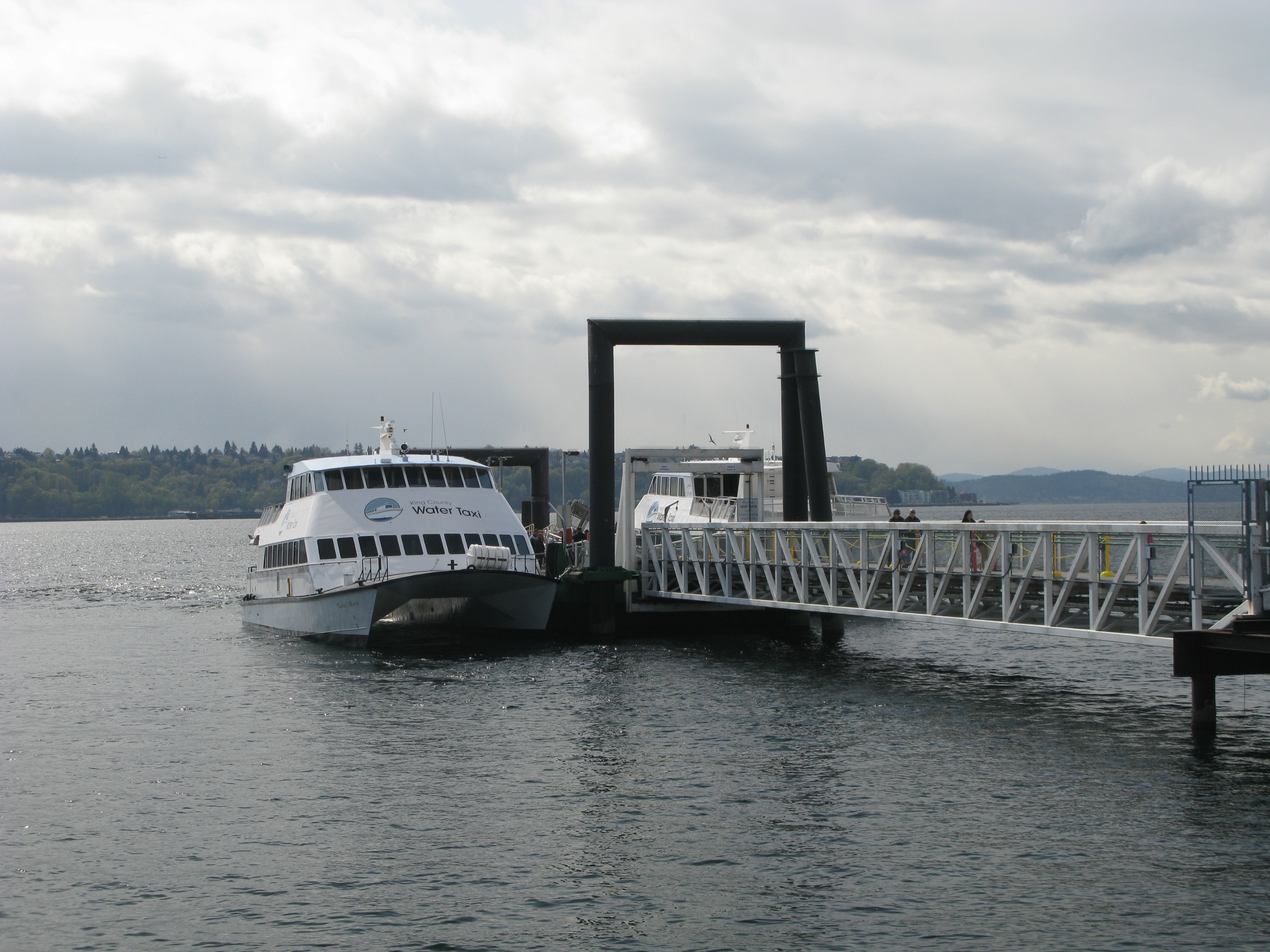 The King County Water Taxi vessels moored at Seattle's Pier 50 terminal